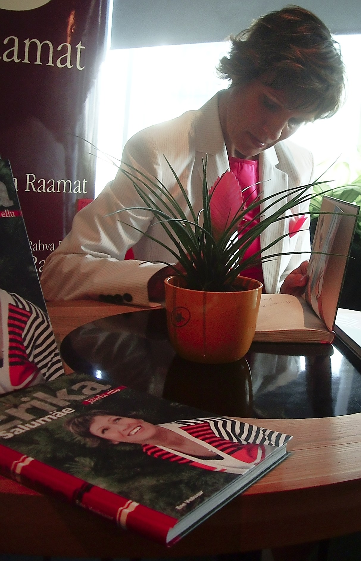 Erika Salumäe signing a book about her life "To stay alive".